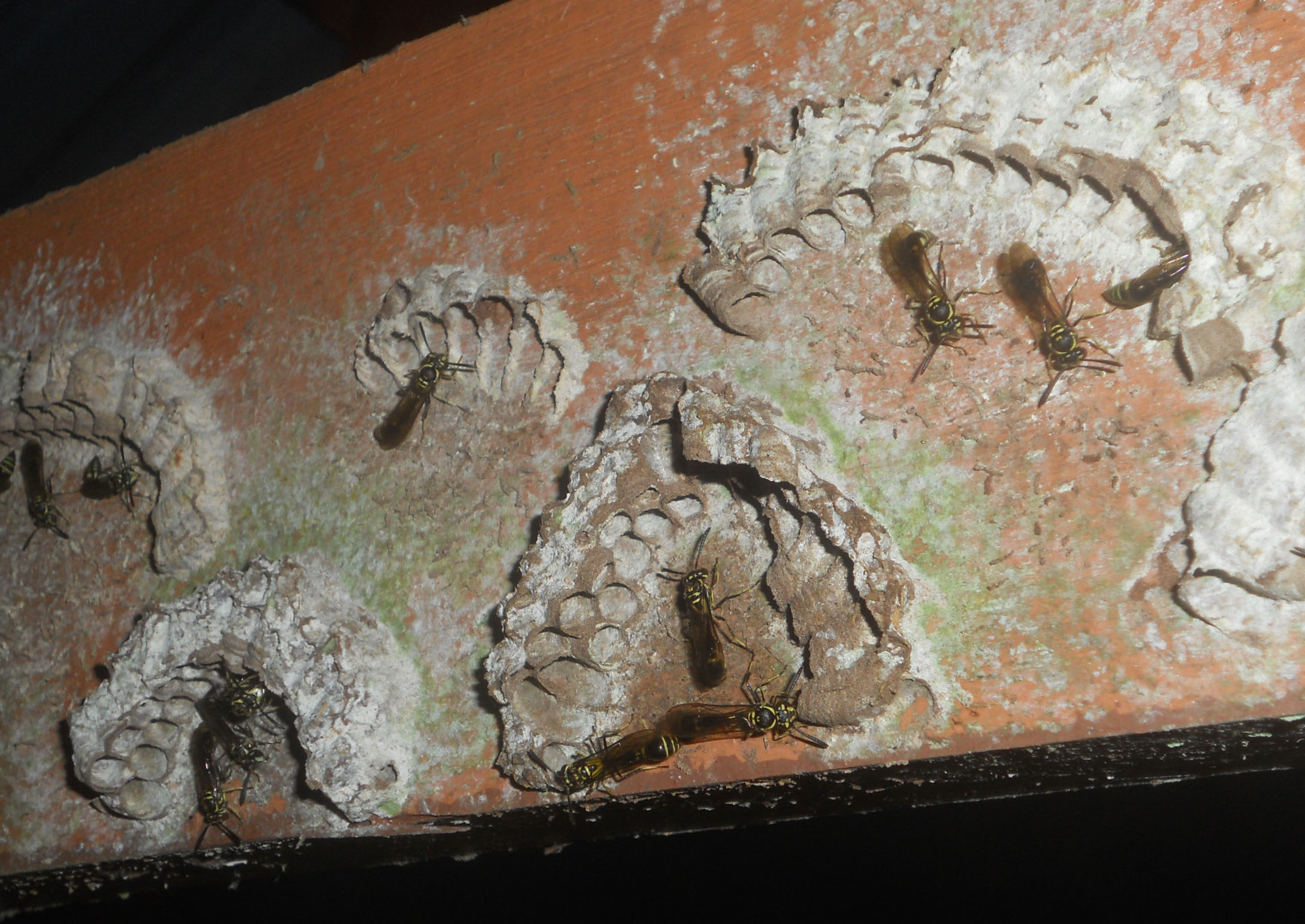 clusters of colonies of the hover wasp Liostenogaster vechti (Stenogastrinae)